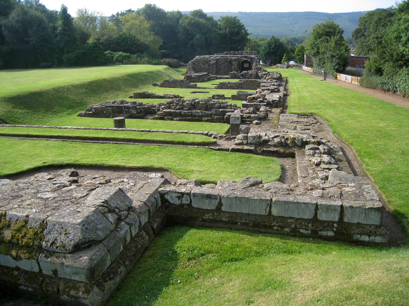 Remains of the west range of Gisborough Priory